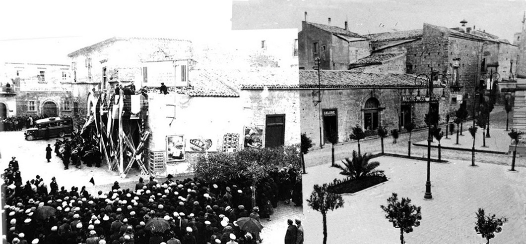 Photo's collage reproducing Varisano Palace and Roma Street in Enna during demonstration of fascist period.